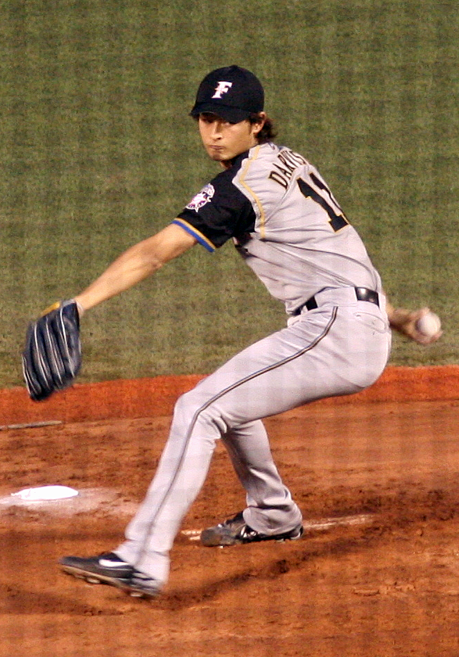 Yu Darvish begins his pitch.